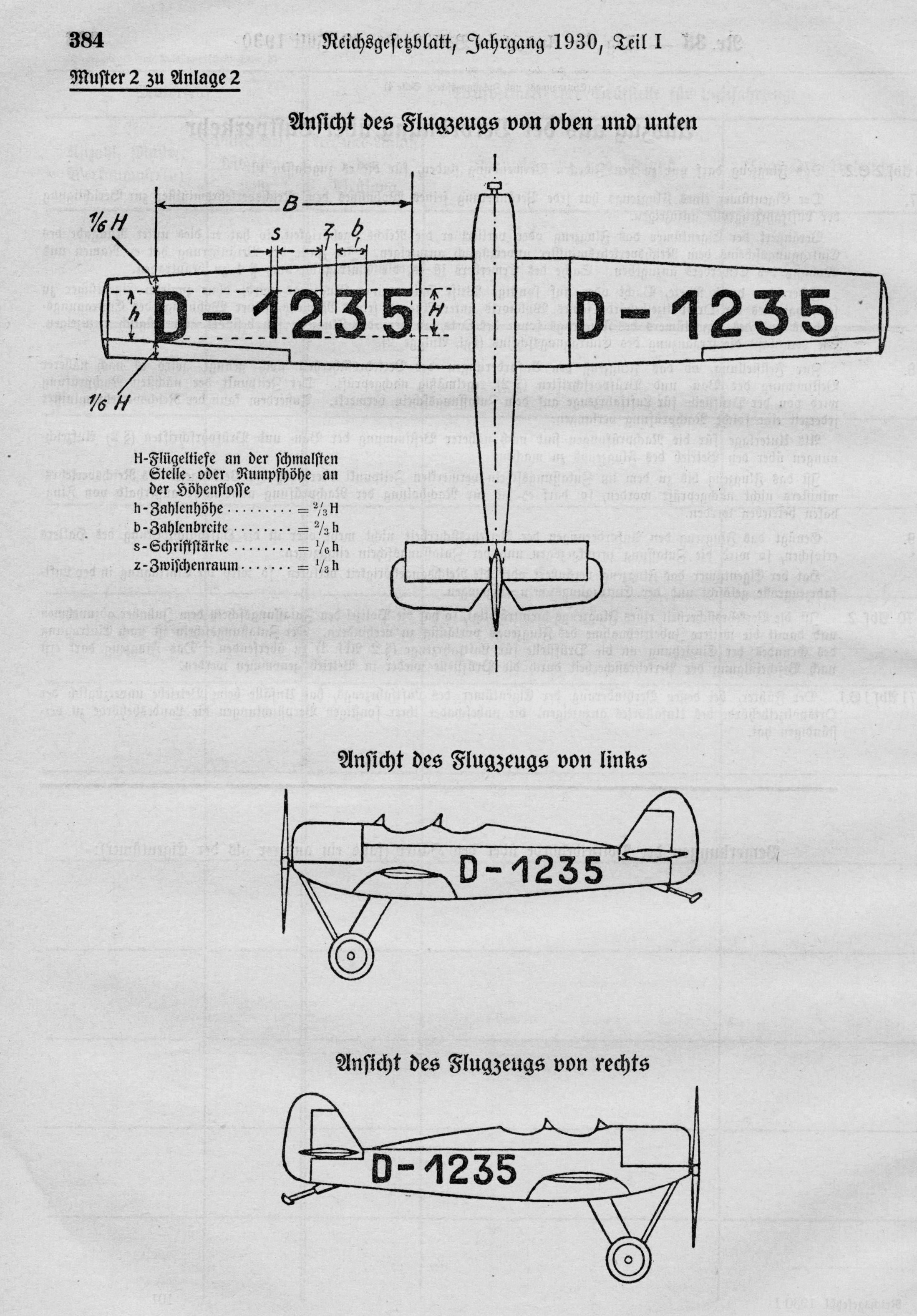 Scan from the Imperial Law Gazette of Germany, 1930, part 1